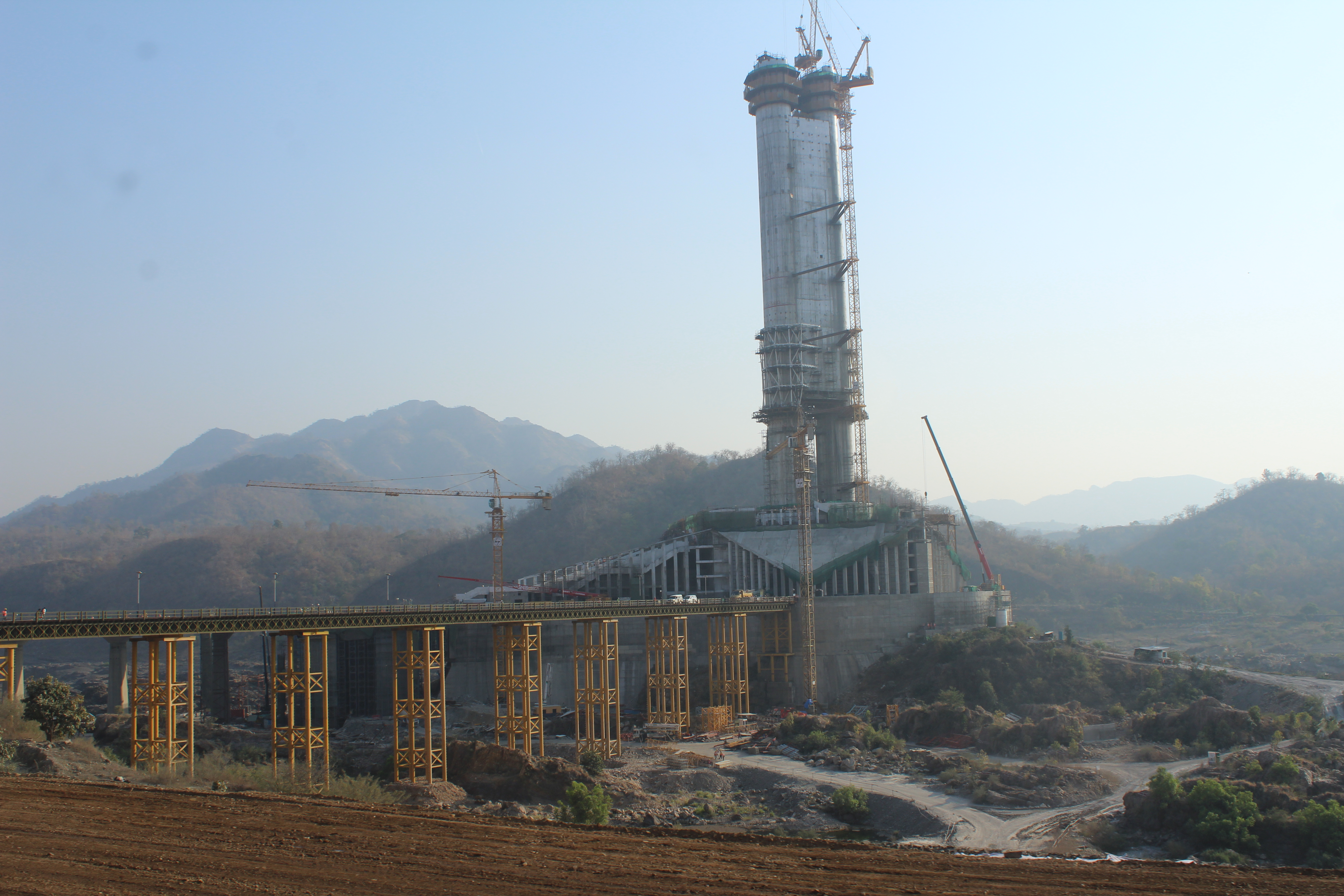 Depicted place: Statue of Unity statue of unity under construction - Vallabhai Patel statue at Gujarat